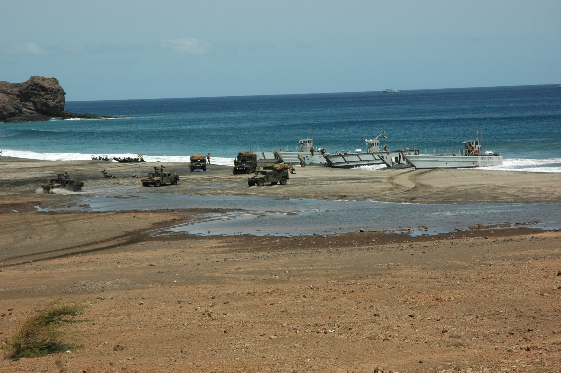 Sao Vicente, Cape Verde - A simulated amphibious and land assault was conducted June 23 to demonstrate the NATO Response Force-7's show of force during Exercise Steadfast Jaguar. More than 7,000 NATO personnel from land, maritime and air components participated in the exercise from June 15-28. The purpose of the live exercise is to test the NRF's ability to project a force at a strategic distance from mainland Europe and sustain it.